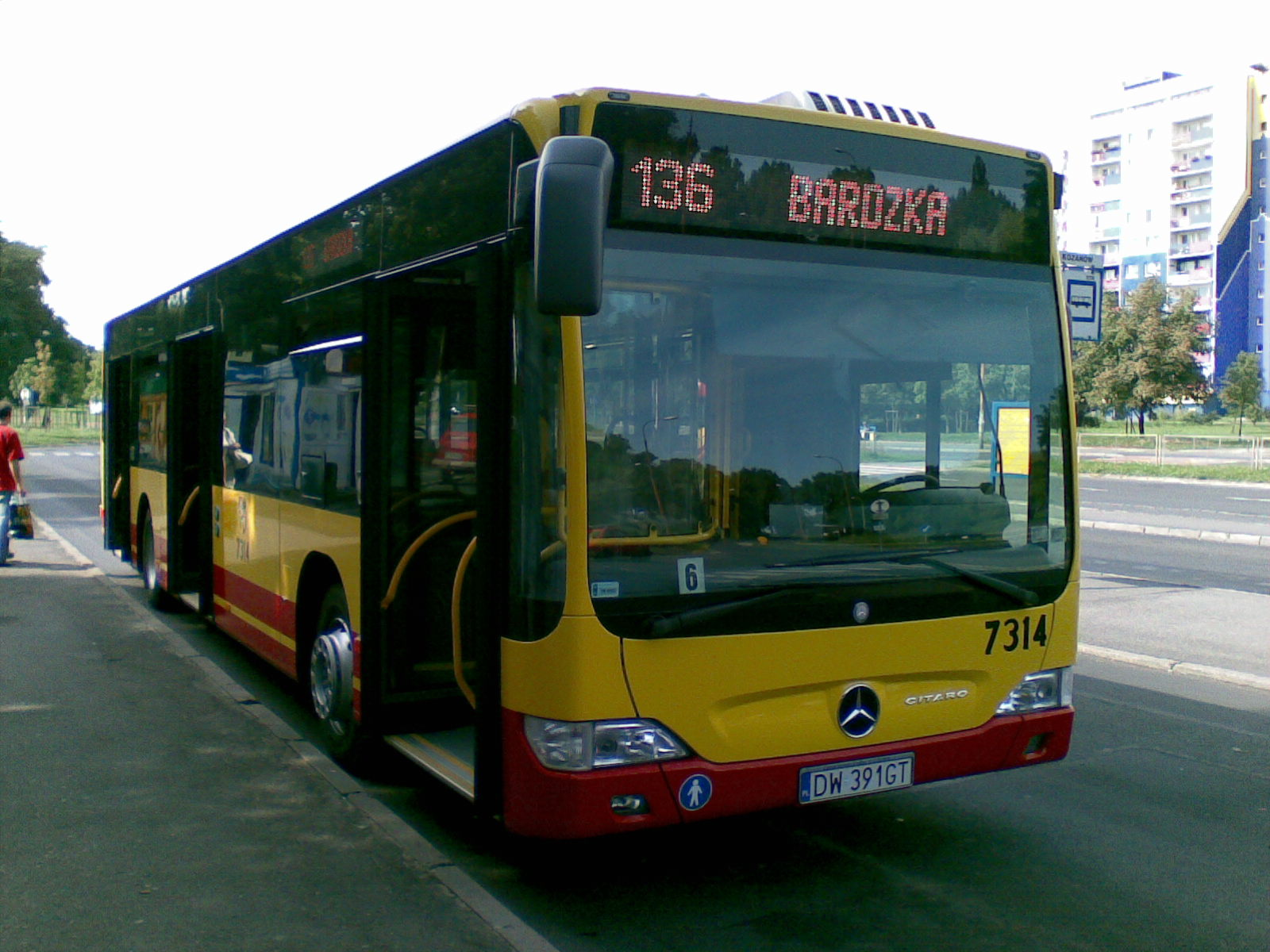 Mercedes-Benz O530 Citaro bus (#7314) in Wrocław, Poland. Built 2008. MPK Wrocław operator.